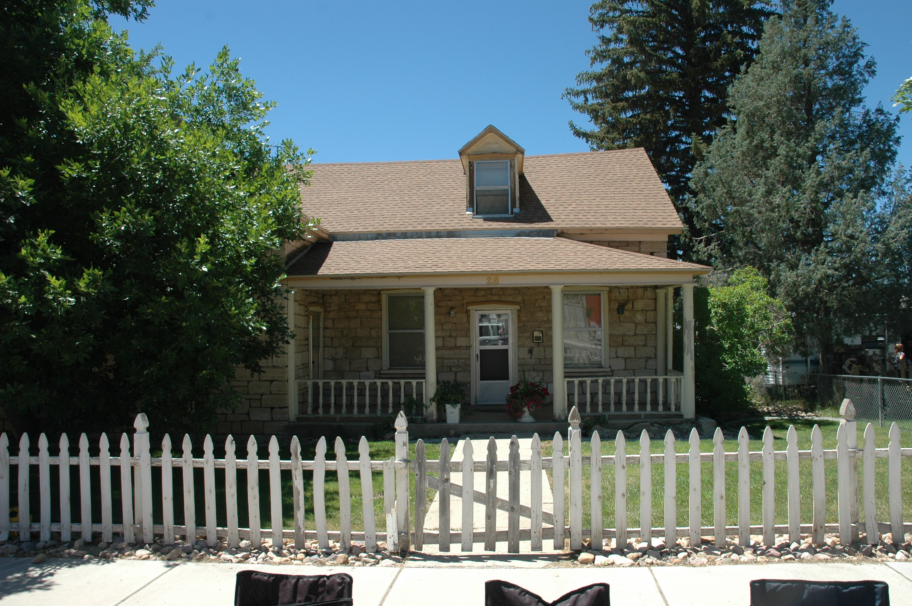 The Niels P. Hjort House, a historic home in Fairview, Utah, United States.